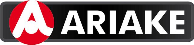 This picture is the Ariaké's logotype created by ourselves for Ariaké